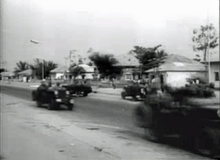 Congolese troops driving around the capital